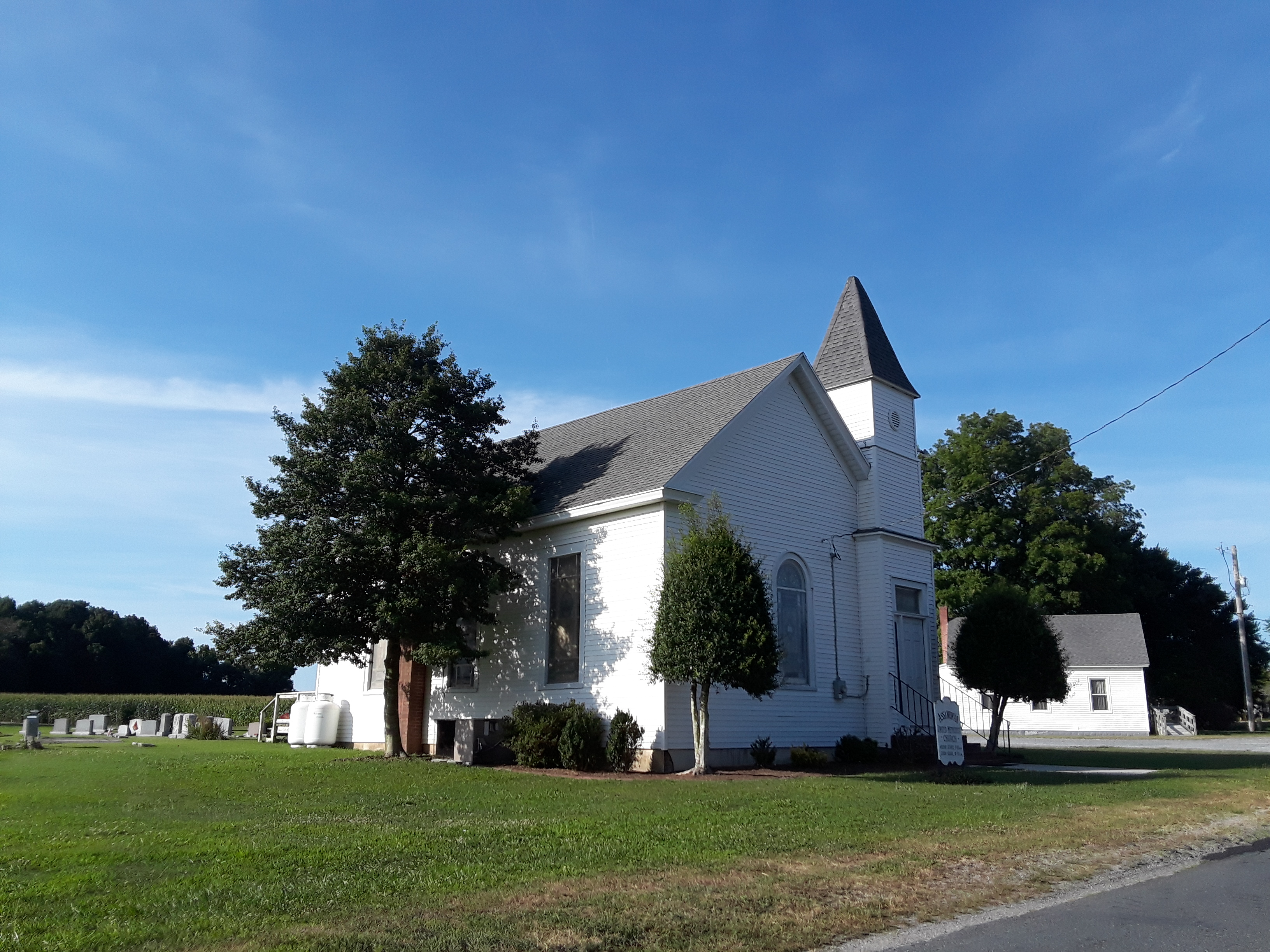 Taken on a visit to the Eastern Shore of Virginia, July 2018